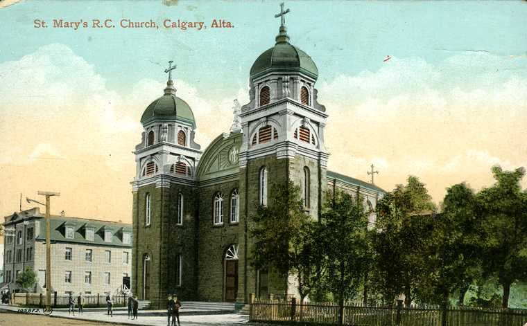 A postcard showing the St. Mary's R.C. Church, Calgary, Alta. Three-colour process. Physical description/extent 1 postcard; 9 x 13.5 Date postcard sent 1911 Date produced [191-?] Date Range(s) 1910-1919 Copyright holder Public domain